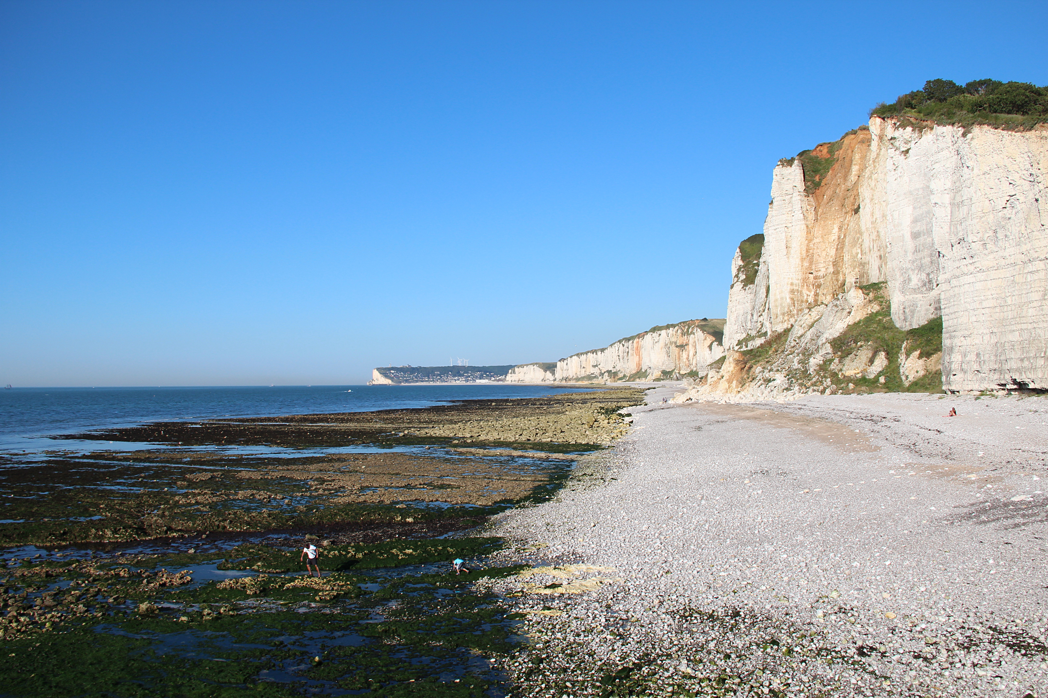 Yport (Seine-Maritime - France), the beach and cliffs upstream.